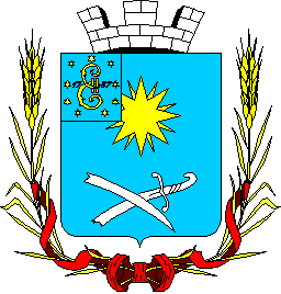 Coat Novomoskovsk (draft Boris Kene)